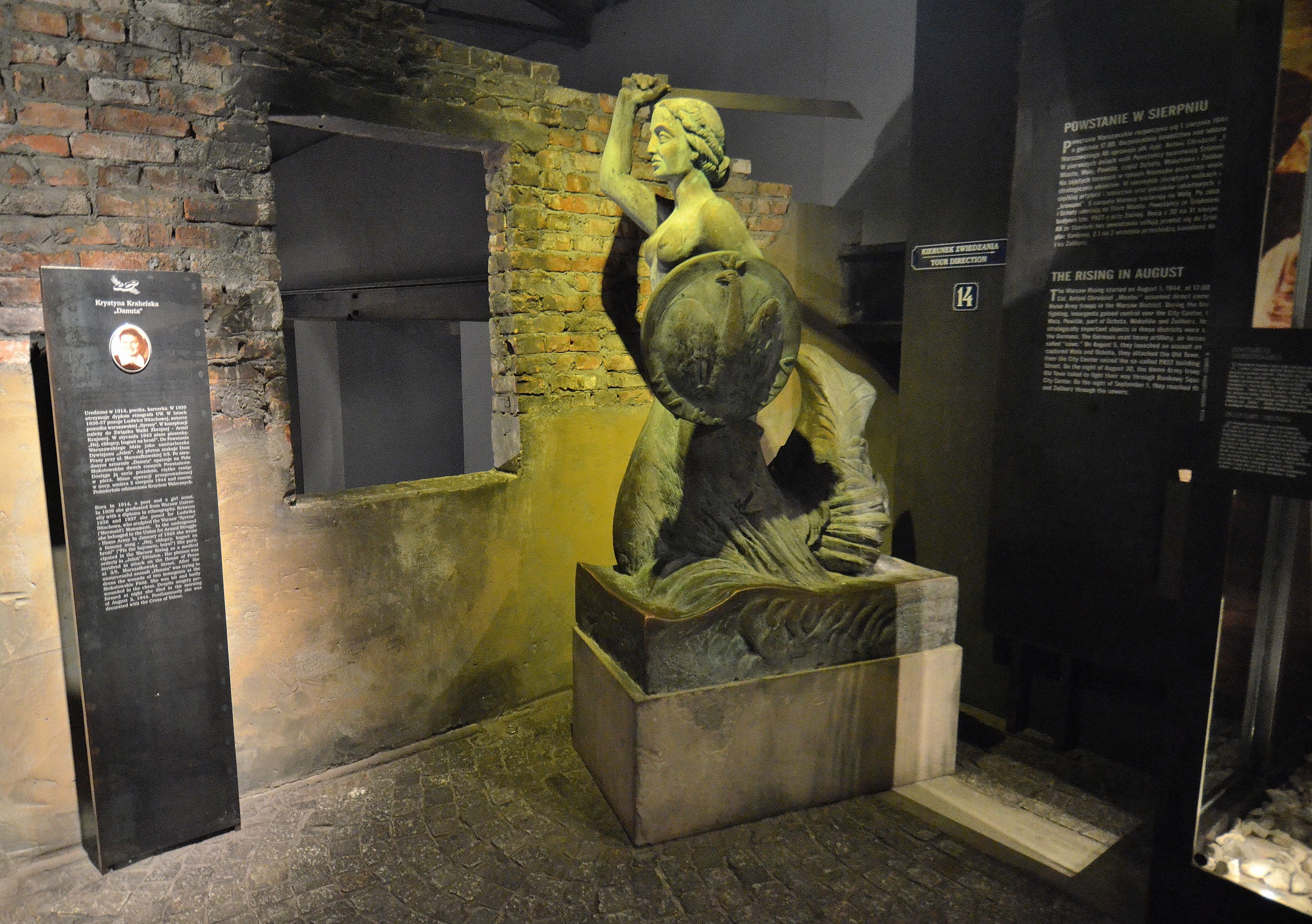 A part of exhibition dedicated to Krystyna Krahelska at the Warsaw Uprising Museum with a copy of Syrenka monument in Powiśle